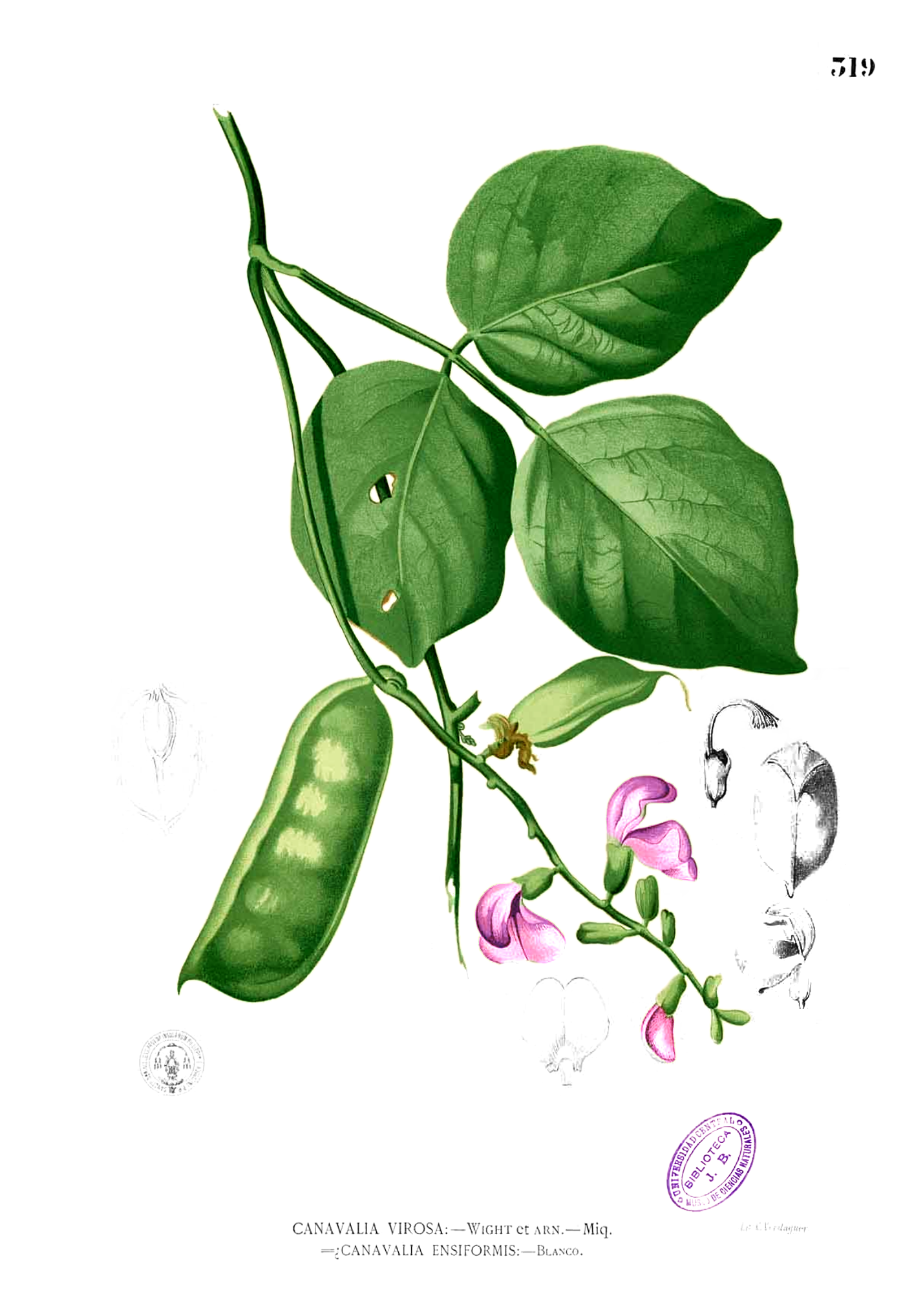 Plate from book